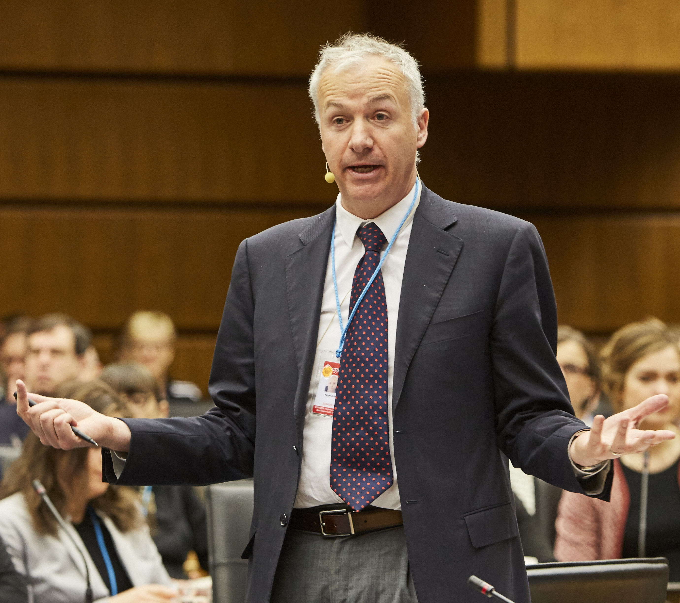 Julian Borger, World Affairs Editor at Guardian News & Media